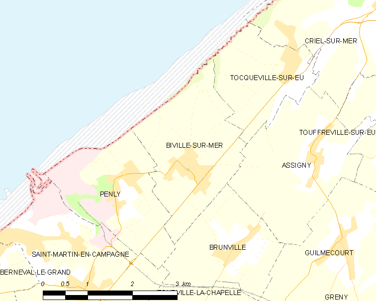 Map of French municipality Biville-sur-Mer